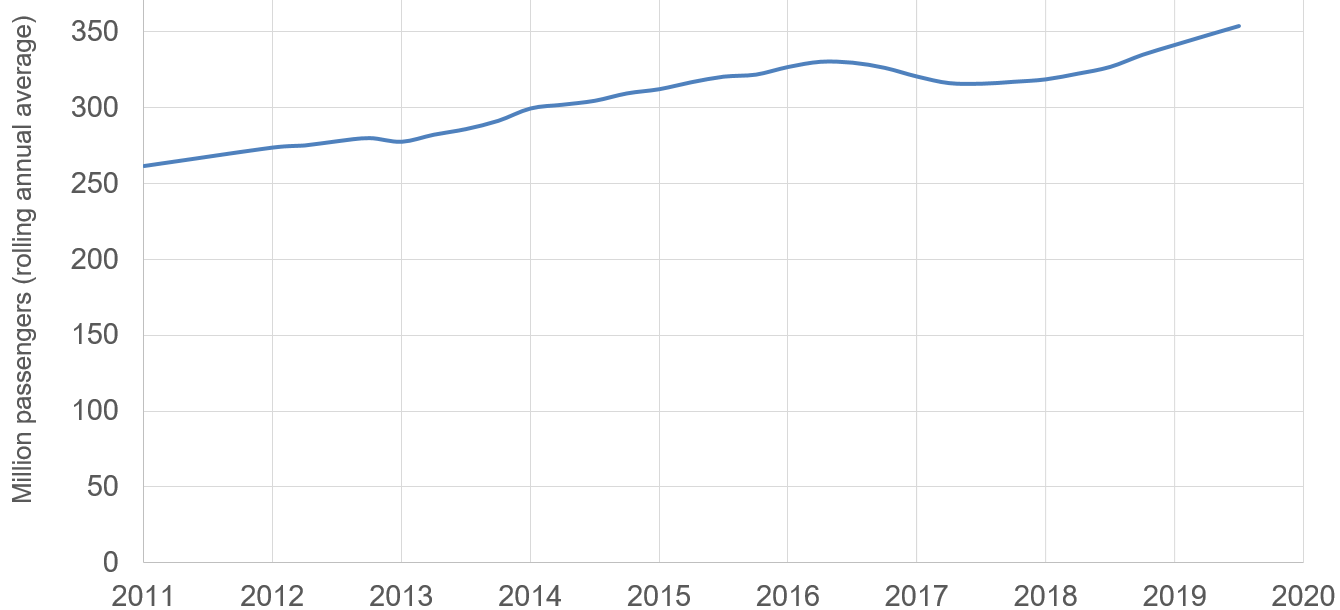 Thameslink and Great Northern passenger numbers 2012 to 2015, annual rolling average[1]